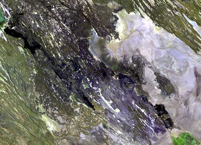 The Manda Hararo complex, which extends diagonally from the NW to SE across this Landsat image, represents an uplifted segment of a mid-ocean ridge spreading center. The massive complex is 105 km long and 20-30 km wide, and consists of small basaltic shield volcanoes and abundant fissure-fed lava flows. The dominant part of the complex lies to the south, where the Gumatmali-Gablaytu fissure system is located.